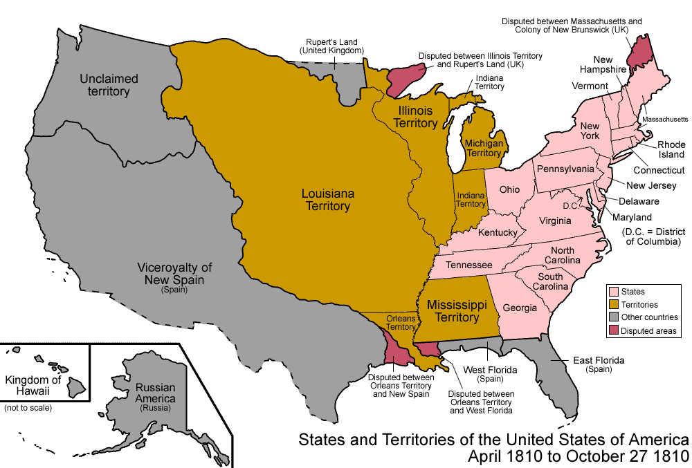 Map of the states and territories of the United States as it was from April 1810 to October 1810. In April 1810, the Kingdom of Hawaii was unified. On October 27 1810, the United States annexed a further portion of West Florida.